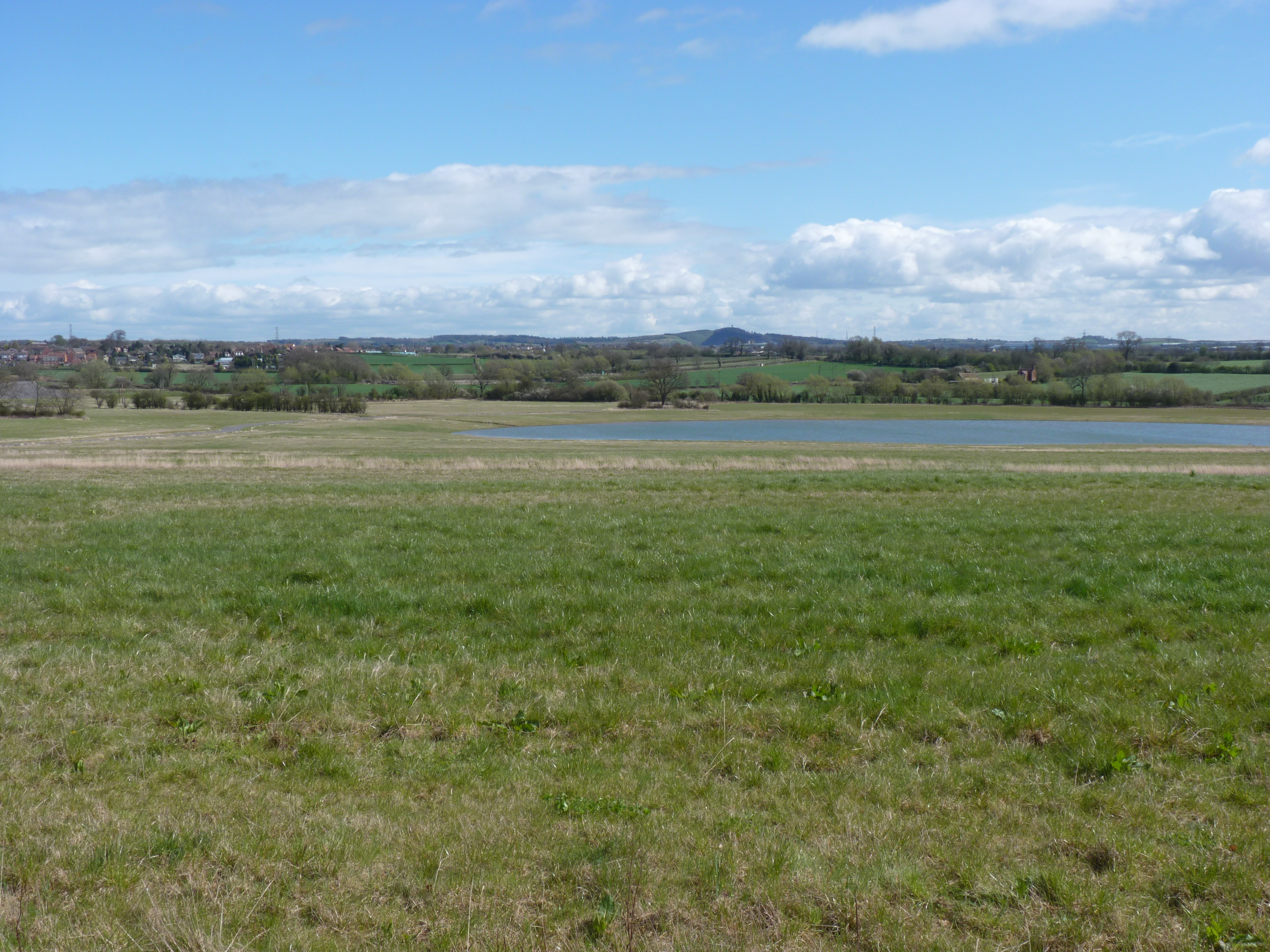 View across the site of the Woodland Trust's new 186ha site that will be planted with 300,000 trees, marking the Queen's Diamond Jubilee in 2012. The recently made lake occupies the site of an open cast coal mine.